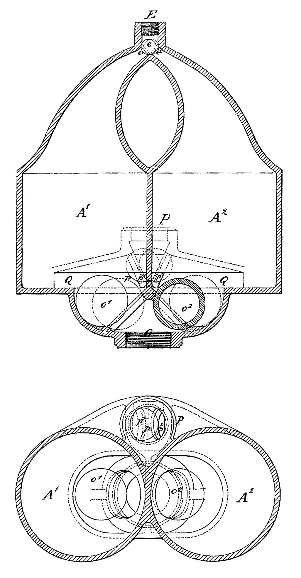 Modified drawing of Hall Pulsometer as detailed in US Patent 131519